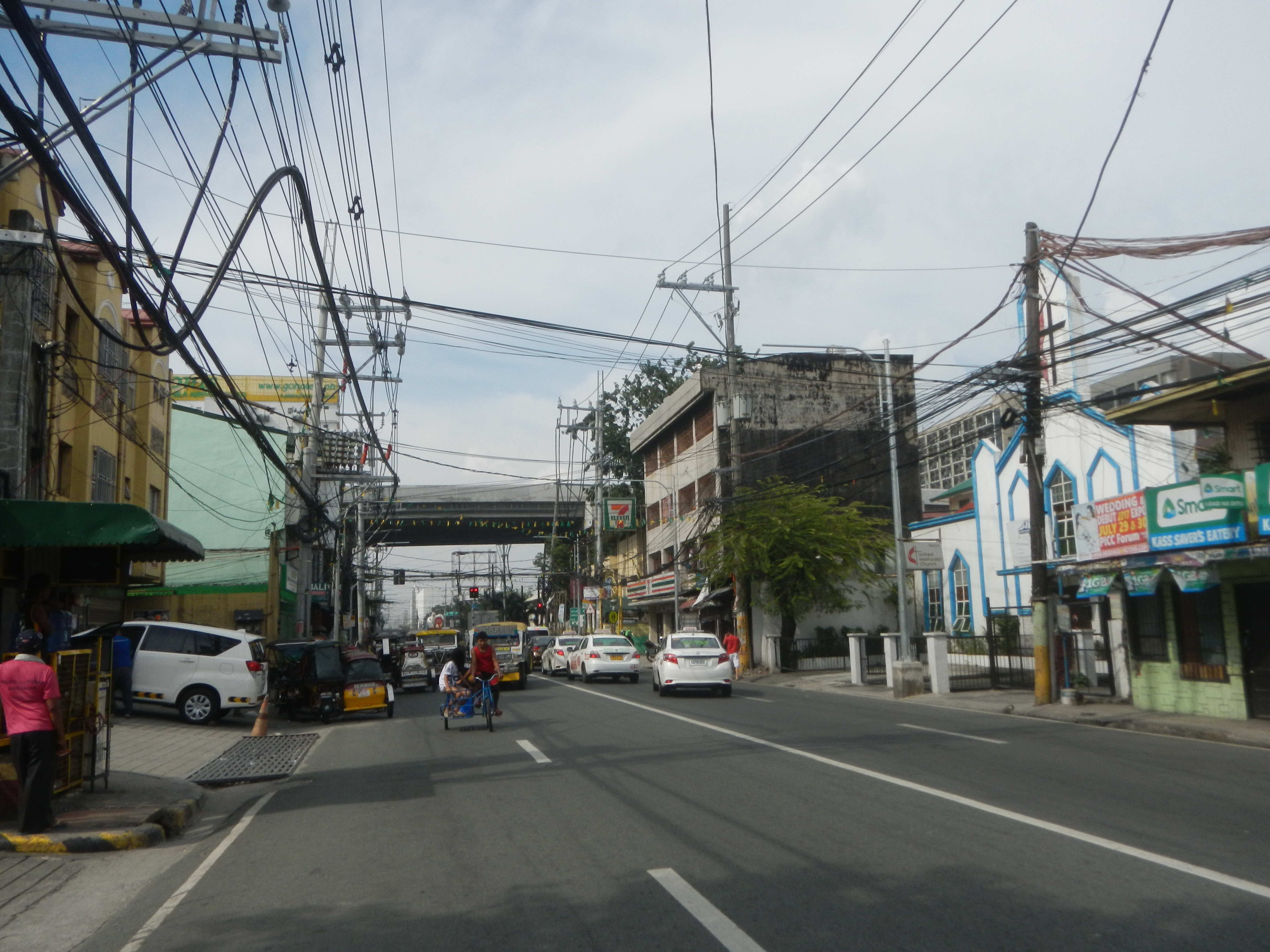 77 Filipino Martyrs United Methodist Episcopal Church Memorial (Elpidio Quirino Avenue, Tambo, Parañaque City) from NAIA Road Legislative districts of Parañaque 1st District, Districts and barangays Barangays San Antonio 14°27'56"N 121°1'52"E San Isidro 14°28'1"N 121°0'40"E San Dionisio 14°29'2"N 120°59'33"E from Baclaran, towards La Huerta 14°29'50"N 120°59'43"E beside Santo Niño 14°30'14"N 121°0'11"E Tambo 14°30'59"N 120°59'20"E Parañaque City along Elpidio Quirino Avenue (Note: Judge Florentino Floro, the owner, to repeat, Donor Florentino Floro of all these photos hereby donate gratuitously, freely and unconditionally Judge Floro all these photos to and for Wikimedia Commons, exclusively, for public use of the public domain, and again without any condition whatsoever).